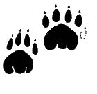 Thylacine footprint with no caption